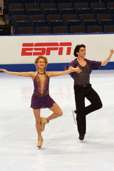 Kimberly Navarro & Brent Bommentre at the 2006 Skate America.